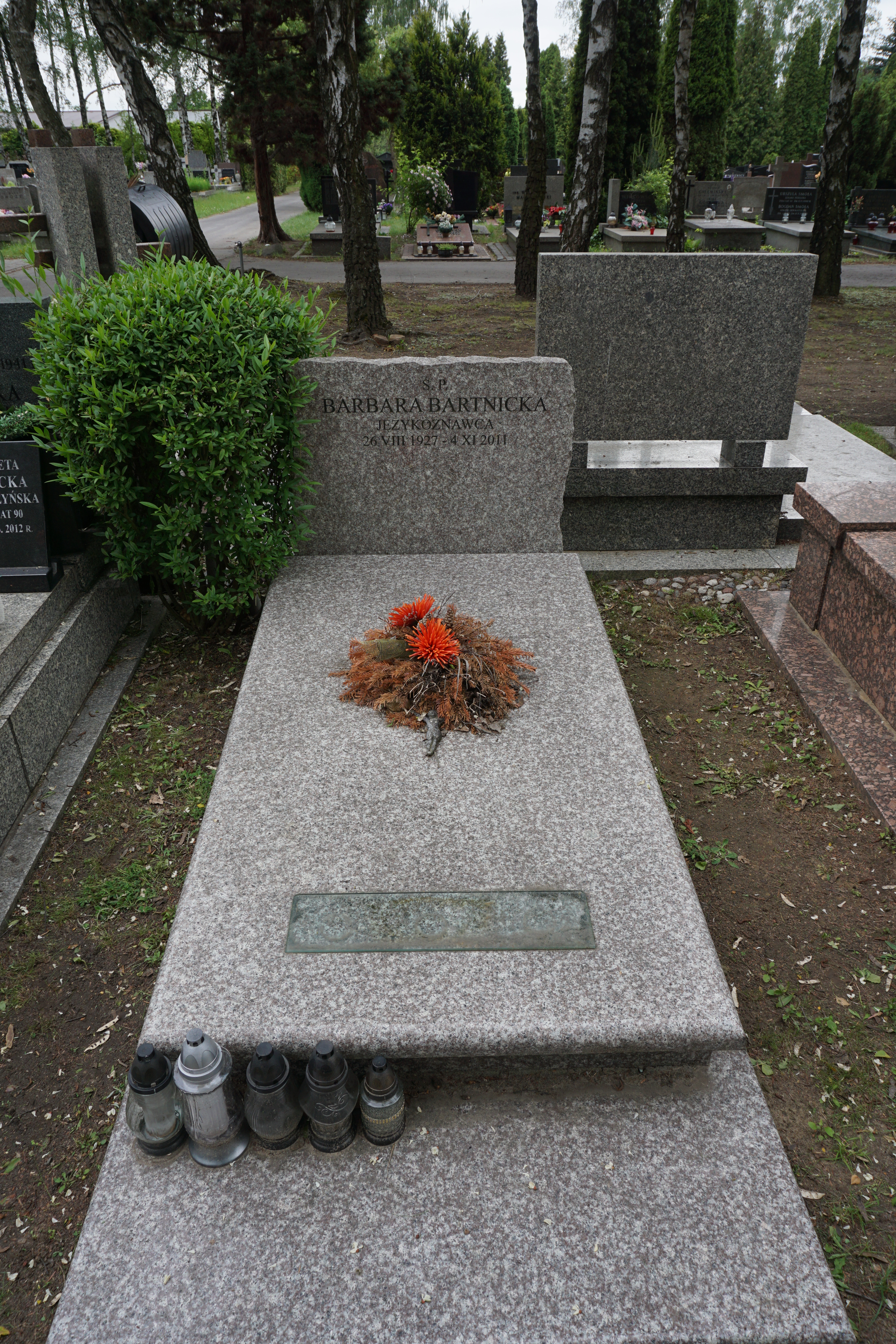 The grave of Barbara Bartnicka at the North Municipal Cemetery in Warsaw (section E-V-7, row 9, grave 9)